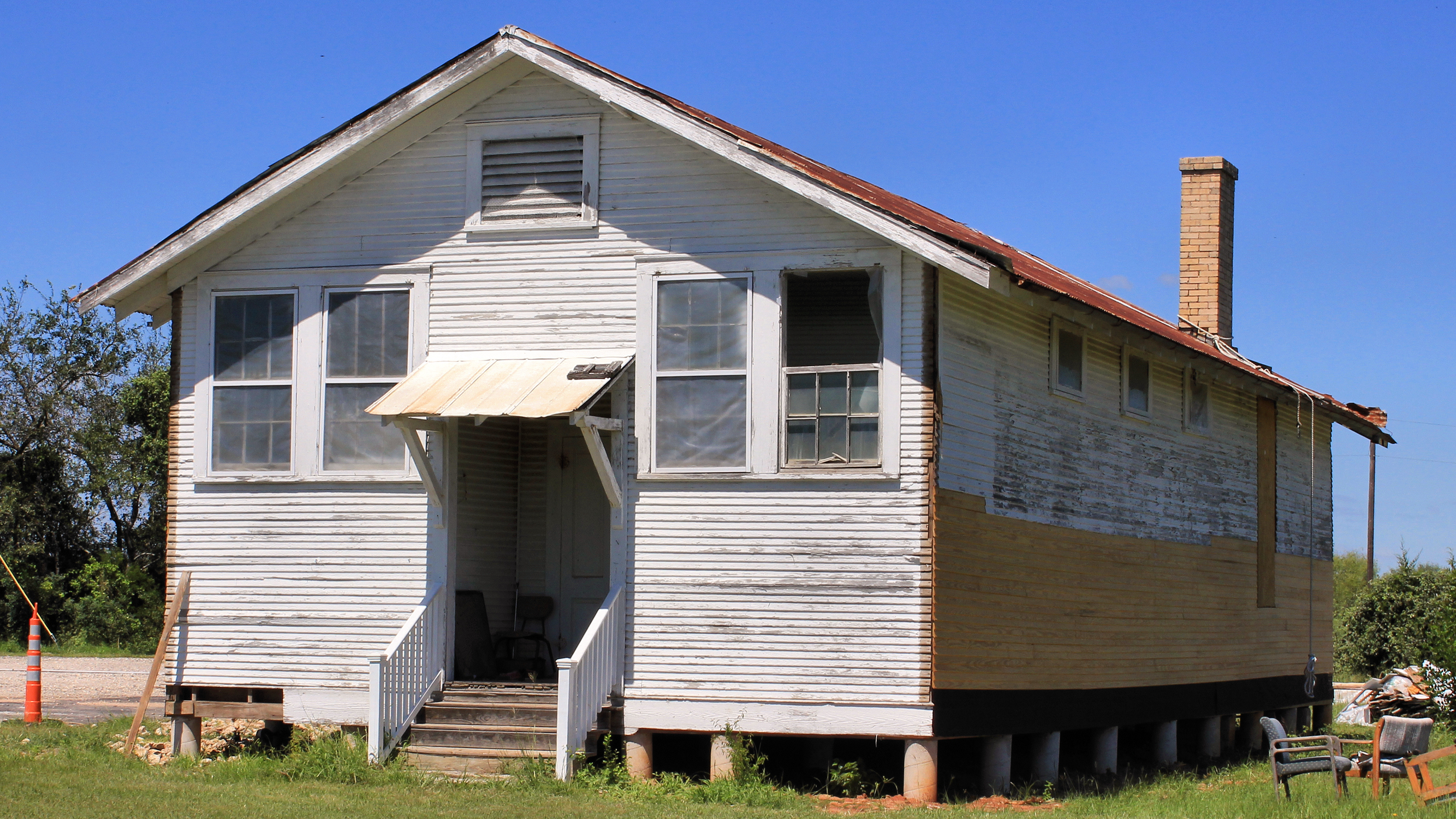 The Hopewell School undergoing renovation. The building is a Rosenwald School built in the Hopewell Community of Cedar Creek, Texas, United States in 1922. The building was listed on the National Register of Historic Places on June 8, 2015.